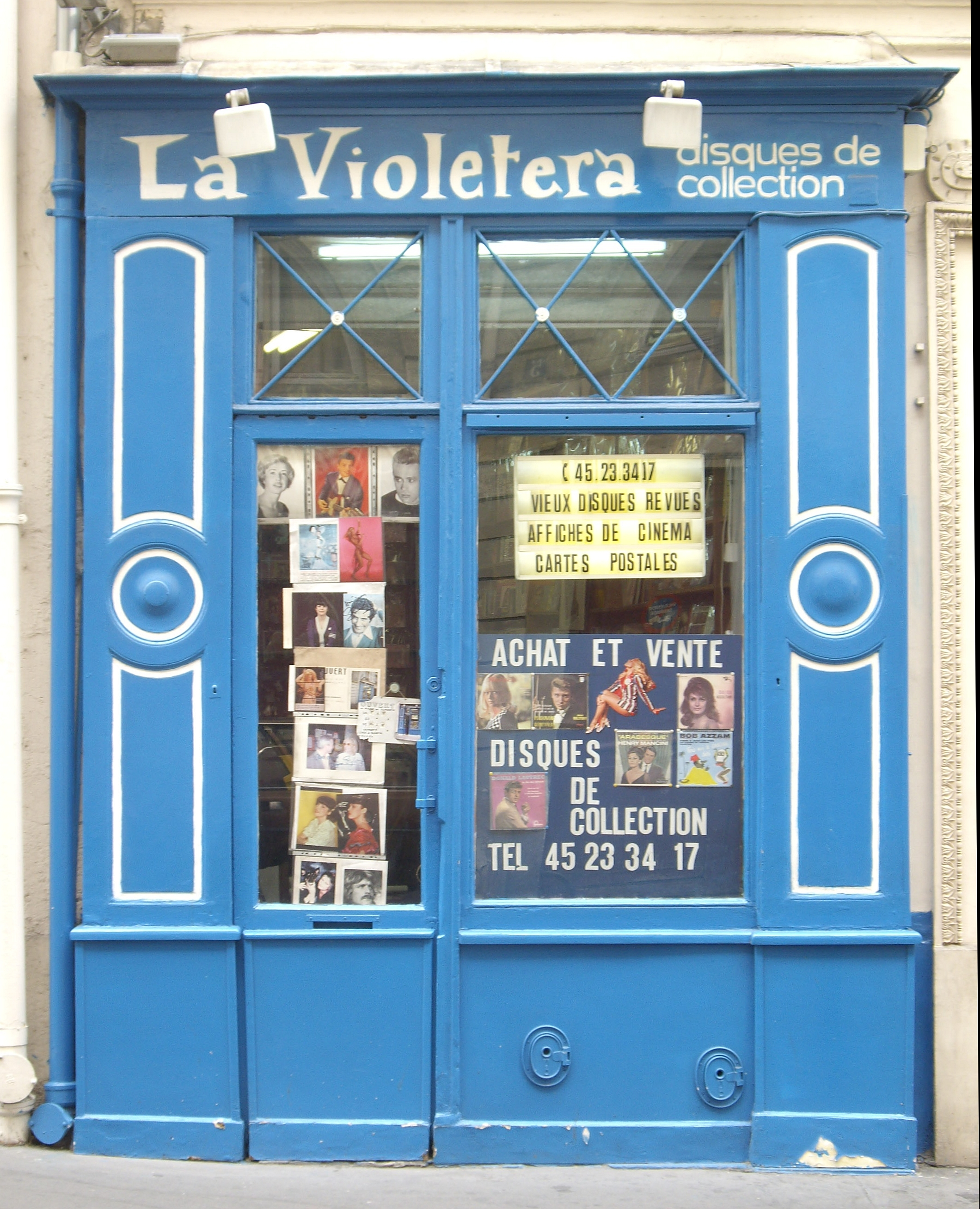 Record shop, Rue Papillon, Paris 9th.